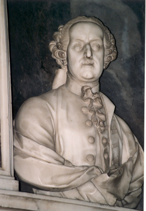 Bust of Marchese Francesco Del Testa